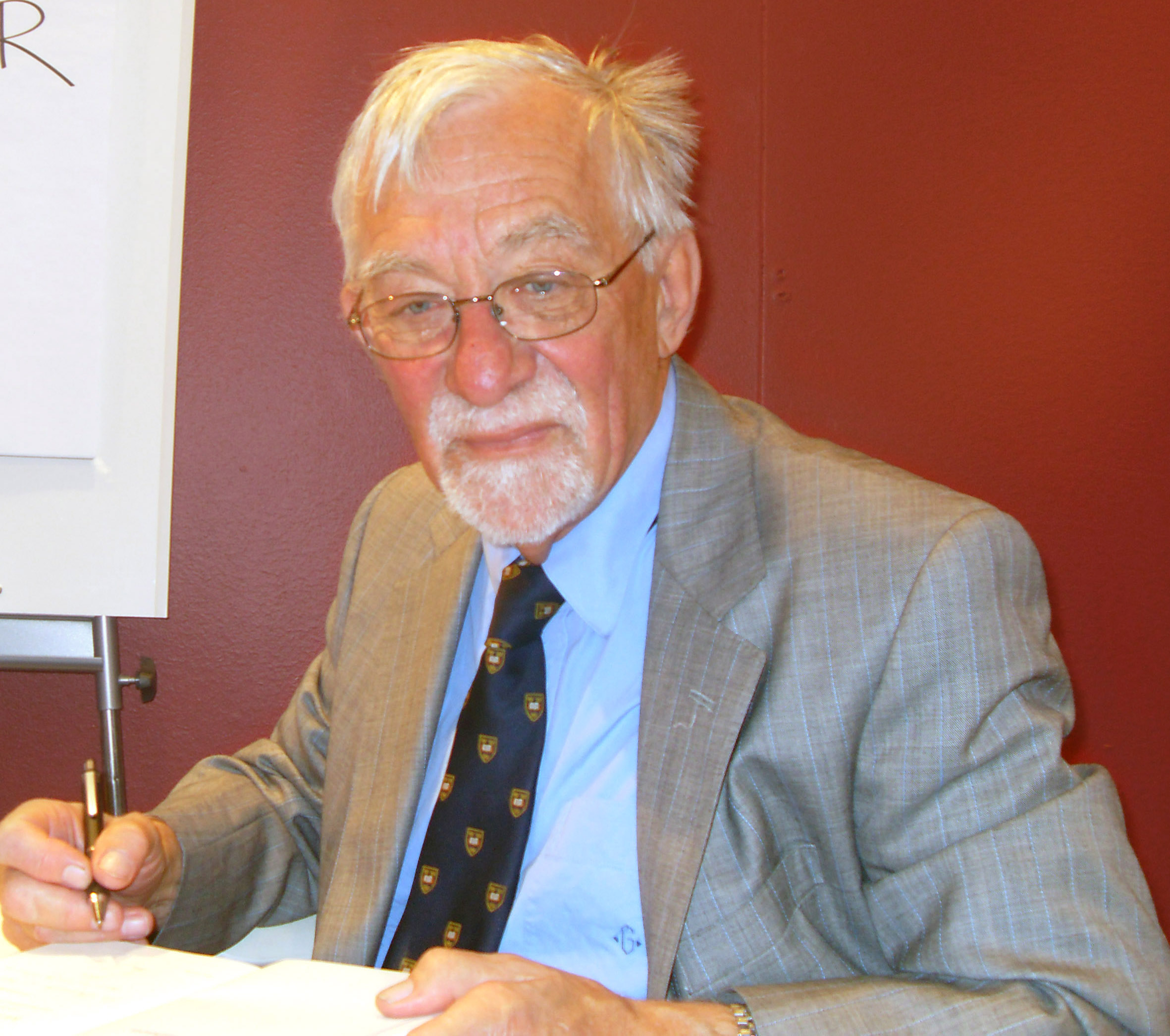 Swedish author Lars Gustafsson at gothenburg book fair 2008